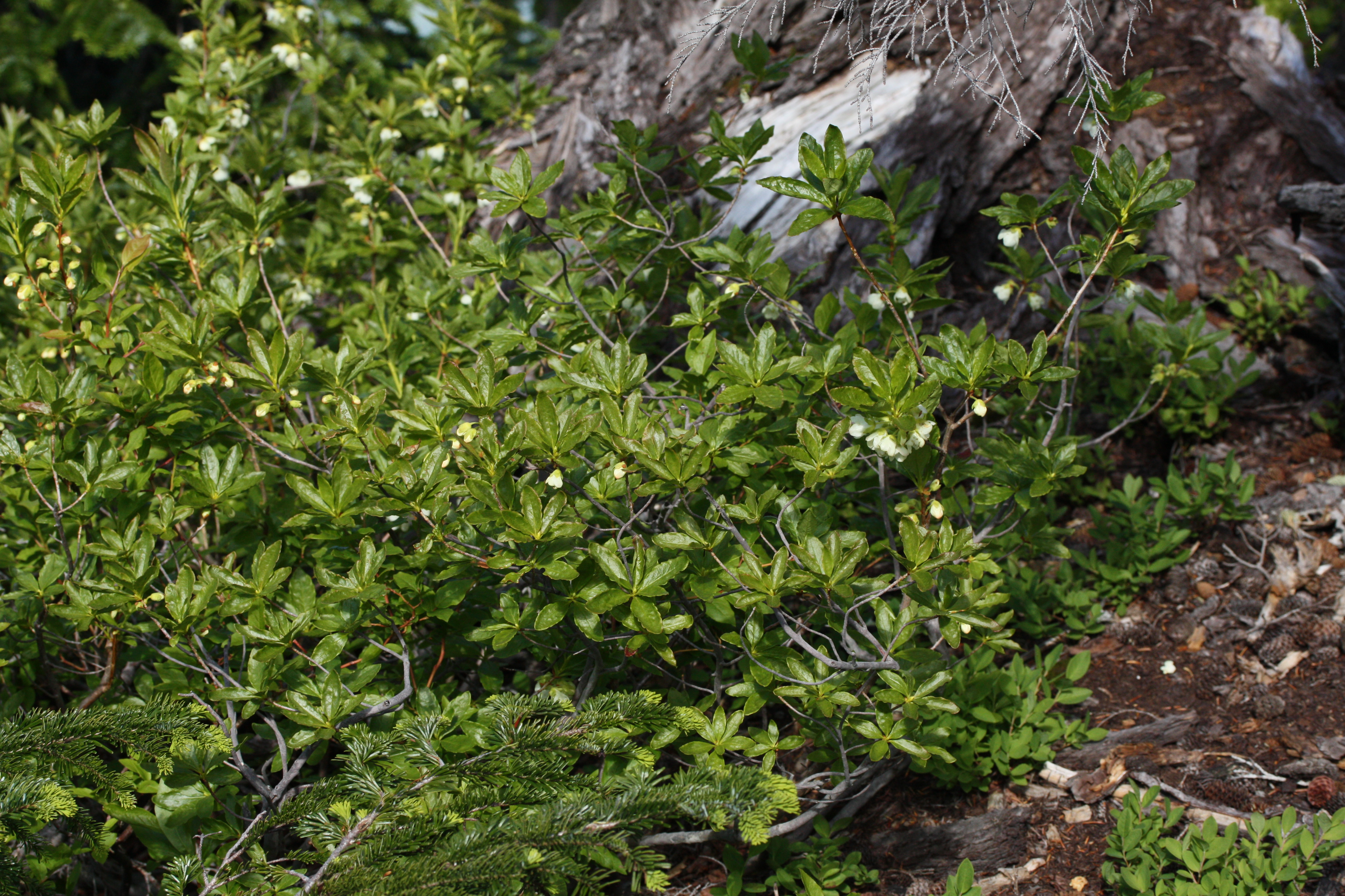 White Rhododendron, Cascade Azalea